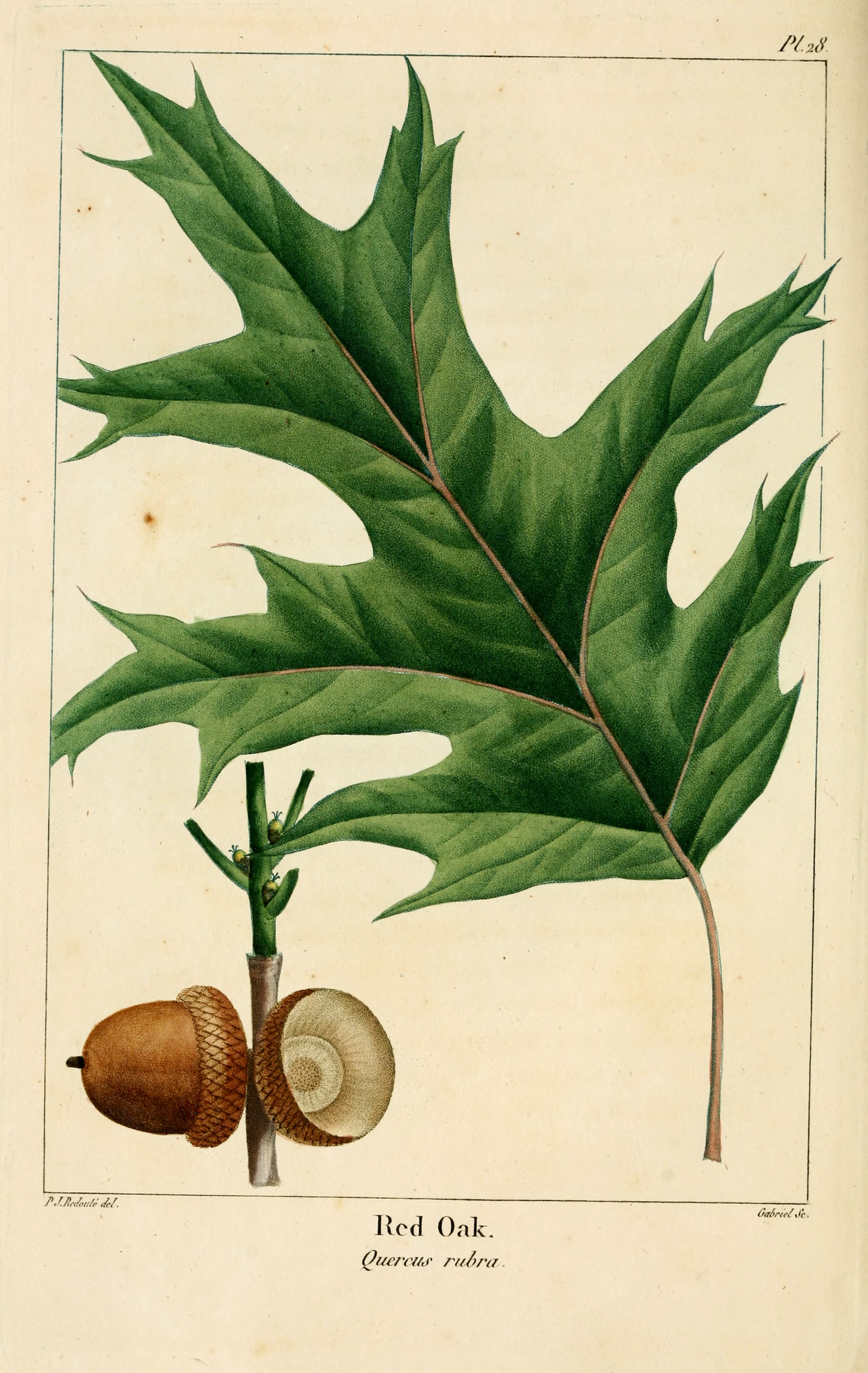 Quercus rubra - Red Oak